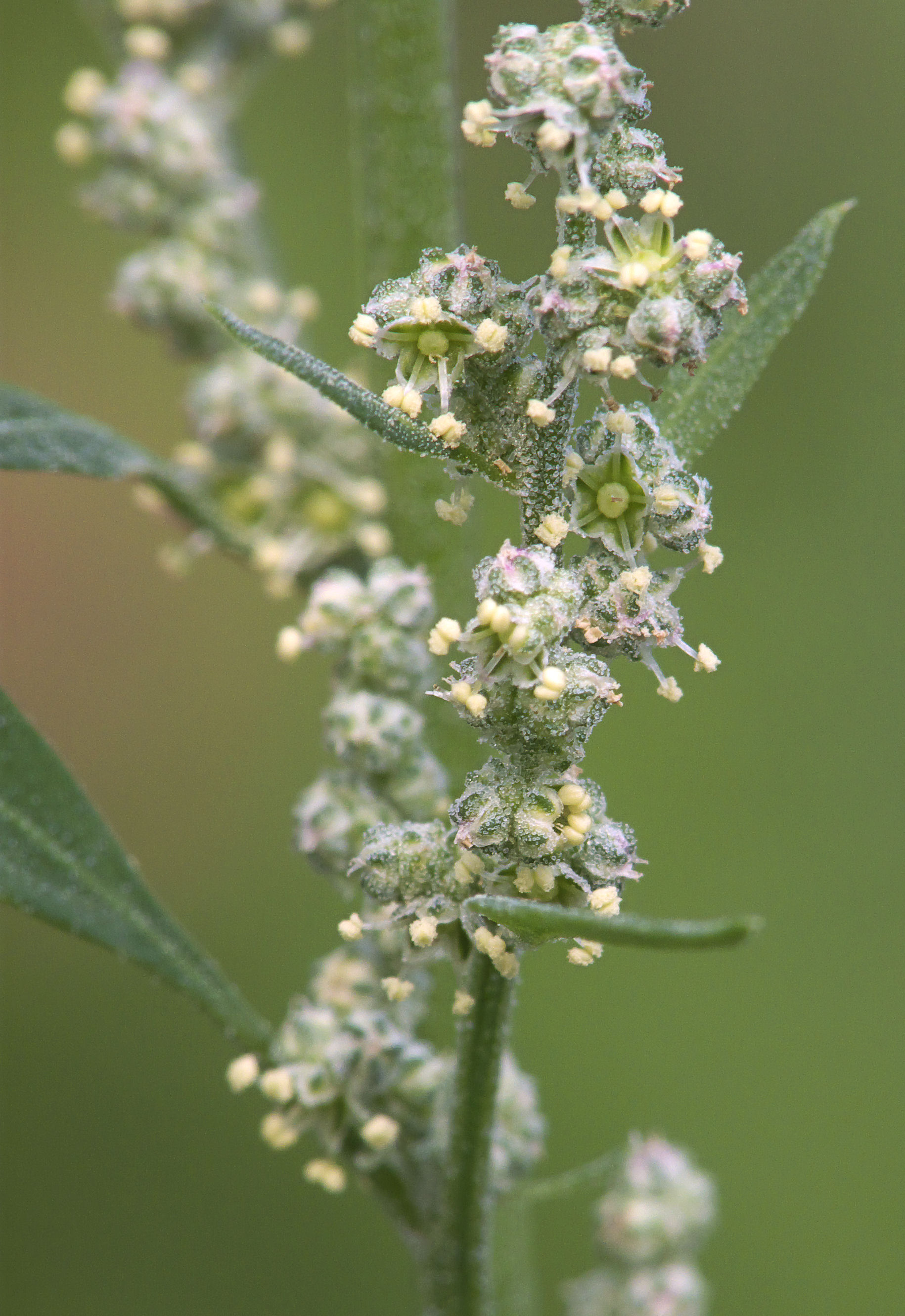 Chenopodium album flowers